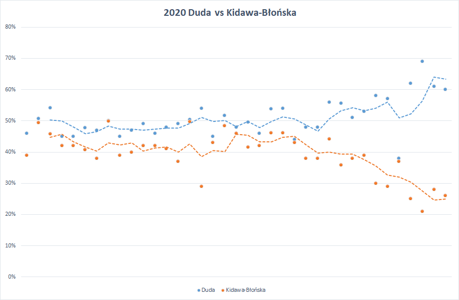 Bez tytułu1